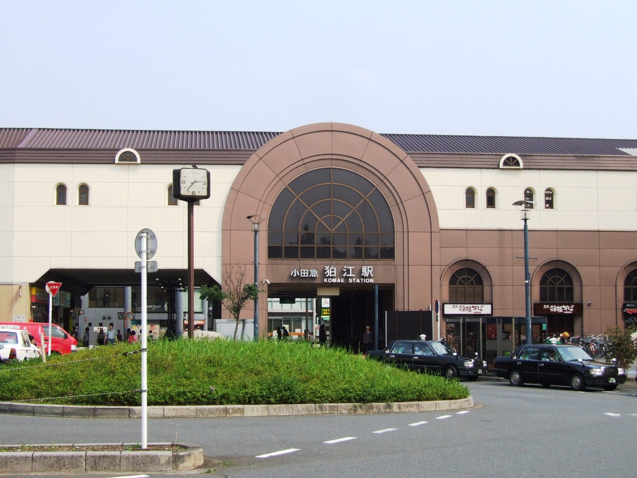 Building of Komae station,OER-ODAWARA-LINE,Odakyu Electric Railwey,Japan